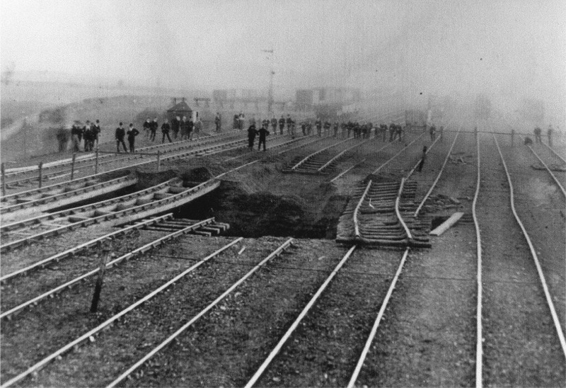 A collapsed railway line at Lindal.